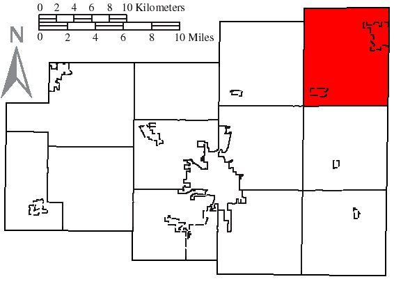 Made by the US Census and modified by myself to highlight the township